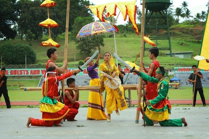 58th Araw ng Lanao del Norte (Lanao del Norte Day)